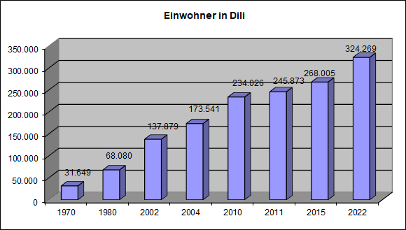 Population in District Dili/East Timor